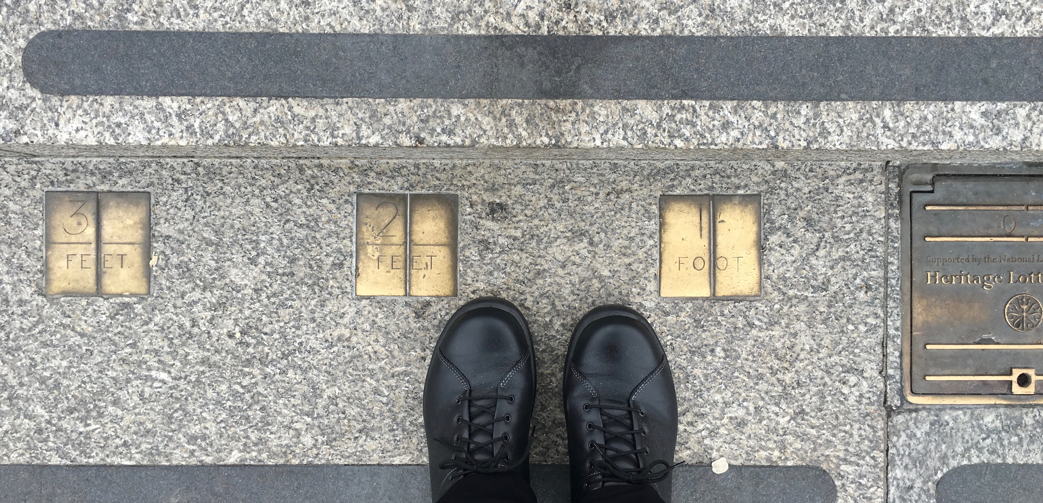 2 ft. The Trafalgar Square standards, installed in 1876.